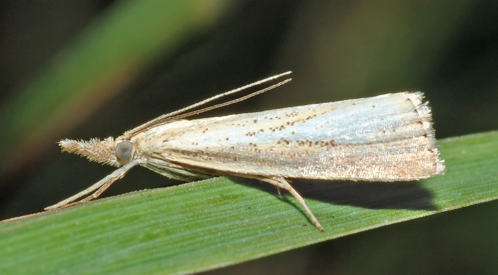 This image shows a 10 mm large Pyralidae of the species Agriphila straminella. Thanks to Olei and Doc Taxon for identifying this animal.